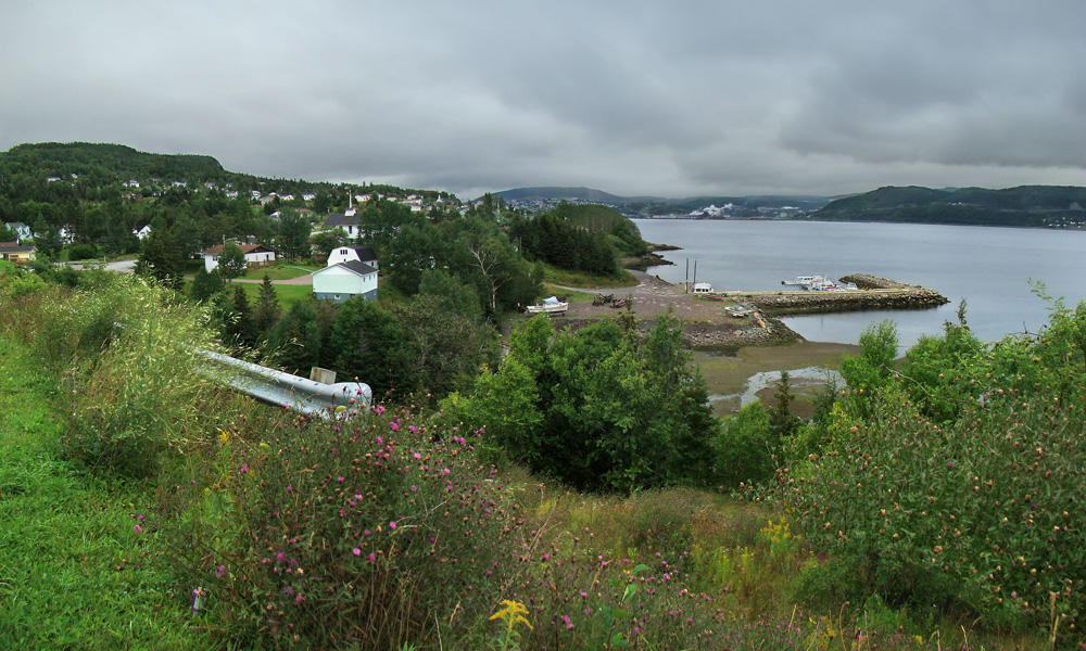 Summerside, on the northern shore of the Humber Arm, Western Newfoundland, Canada.